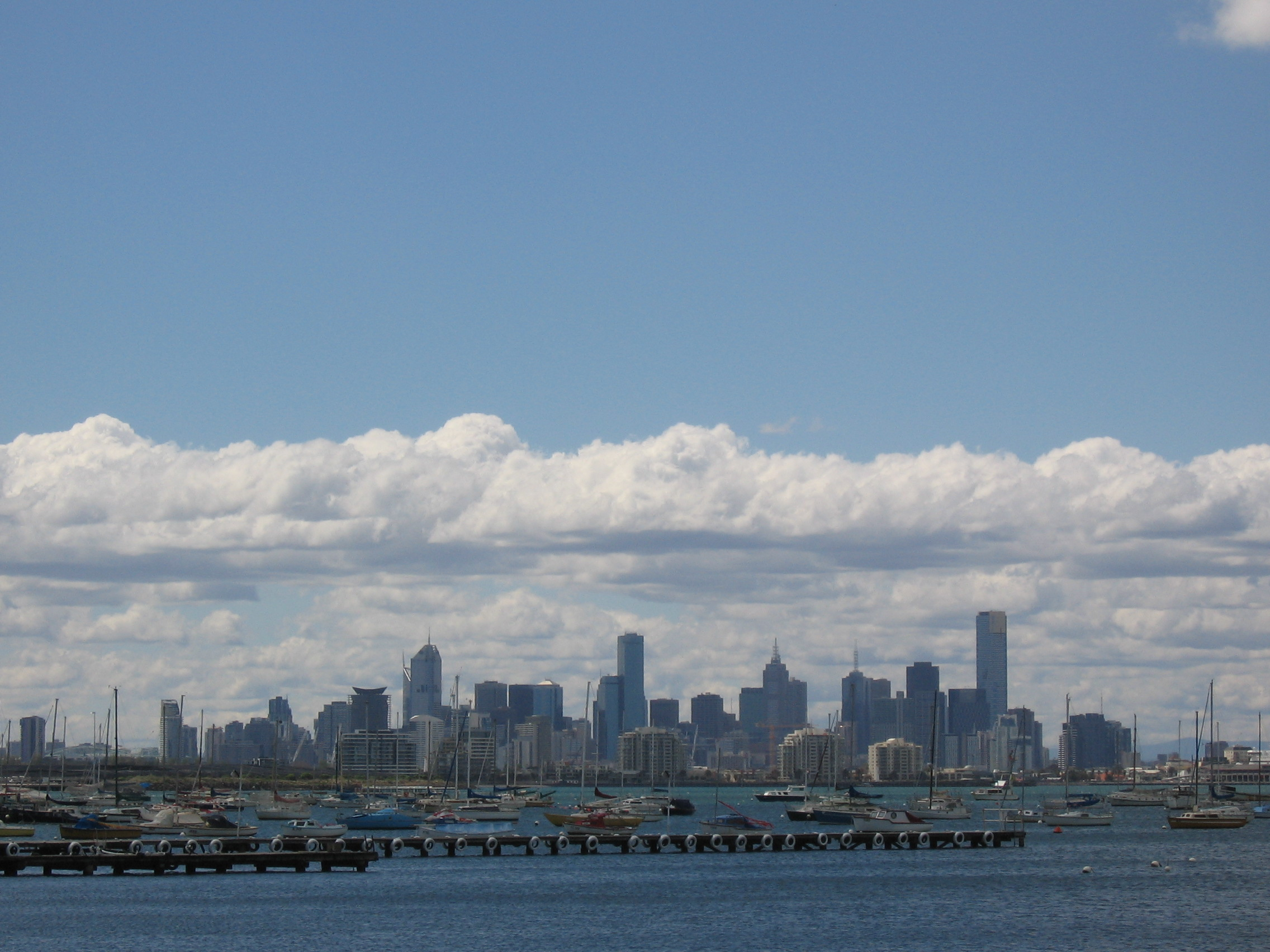 The skyline of Melbourne, Australia, seen from Williamstown, Victoria